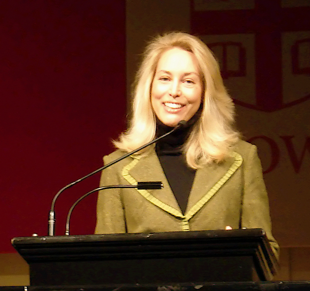 This photo is on the Valerie Plame wikipedia page - released into public domain.